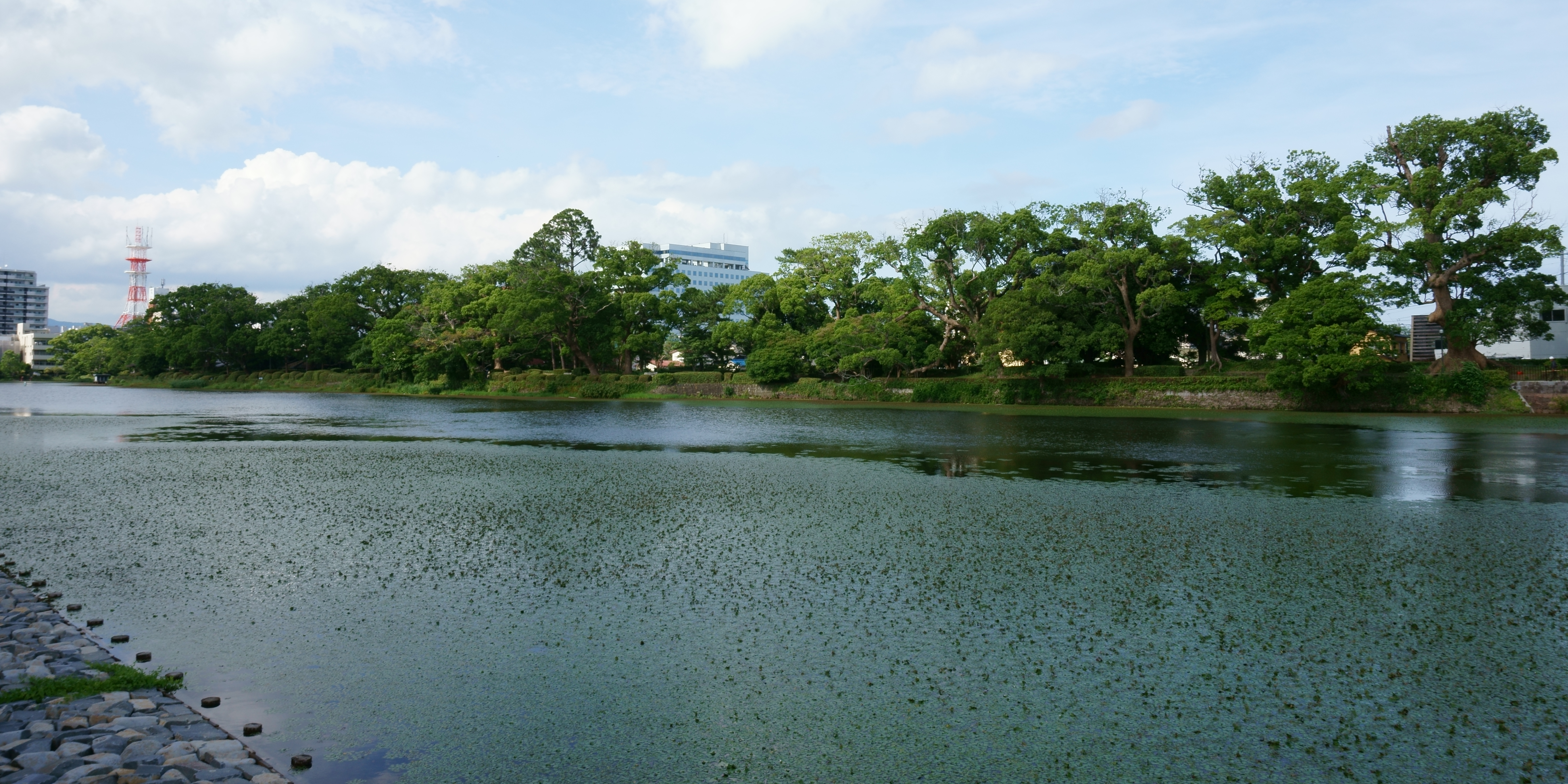 Western Moat of Saga Castle and camphor trees in the Park, Saga City.